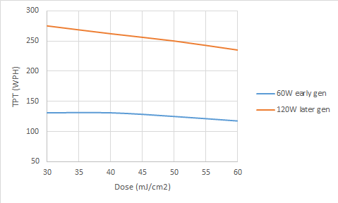 The throughput of early and later generation immersion tools is plotted as a function of dose, assuming a fixed slit width. Higher power enables higher throughput by allowing higher stage speeds. References: M. A. van den Brink et al., Proc. SPIE 2726, 734 (1996); NXT:1980Di; I. Bouchoms et al., Proc. SPIE 8326, 83260L (2012); J. de Klerk et al., Proc. SPIE 6520, 65201Y (2007); Cymer 2008 Annual Report; Cymer 120W ArFi source